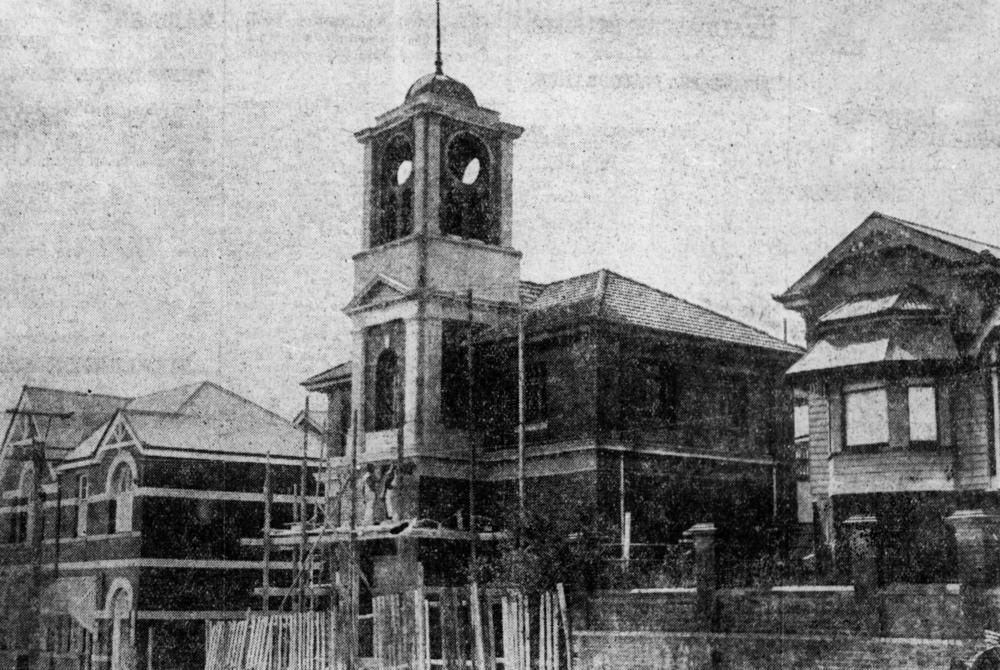 West End School of Arts in Brisbane, 1928. Additions to the West End School of Arts in Brisbane. Caption: Additions, including a tower and a chiming clock, are being made to the West End School of Arts. The Brisbane City Council, which has provided funds for the work, agreed to a request from the Kurilpa War Memorial Committee that provision should be made for a tower to house a clock with Westminster chimes, as a soldiers' memorial. The committee will hand the clock over to the council free of debt.